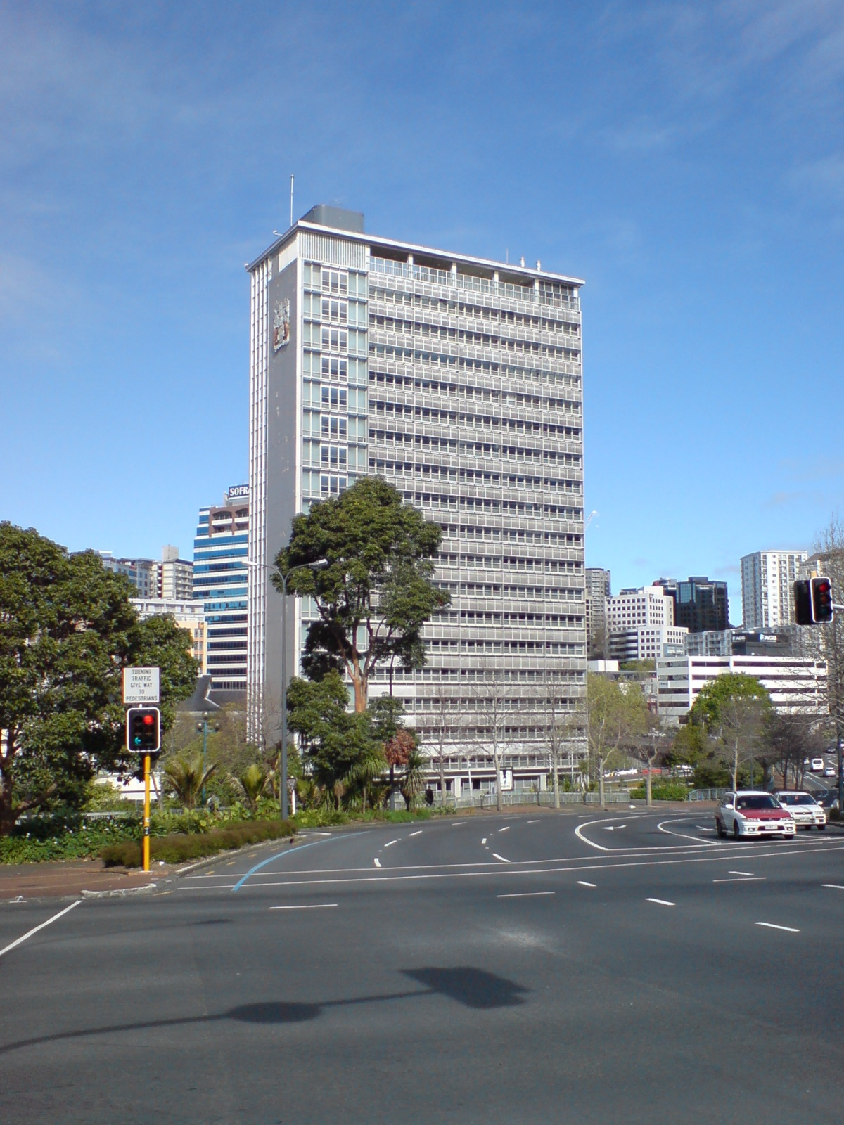 The 'Civic Building', also known as the Council Administration Block (Auckland City Council), near Aotea Square and Queen Street, Auckland City, New Zealand. Considered a positive example of 1950s modernism, it is also thought of as Auckland's first skyscraper.